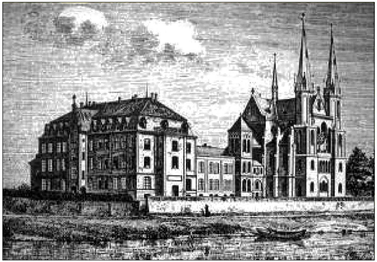 Engraving of St. Michael's monastery in Steyl, Limburg, the Netherlands (c 1885).